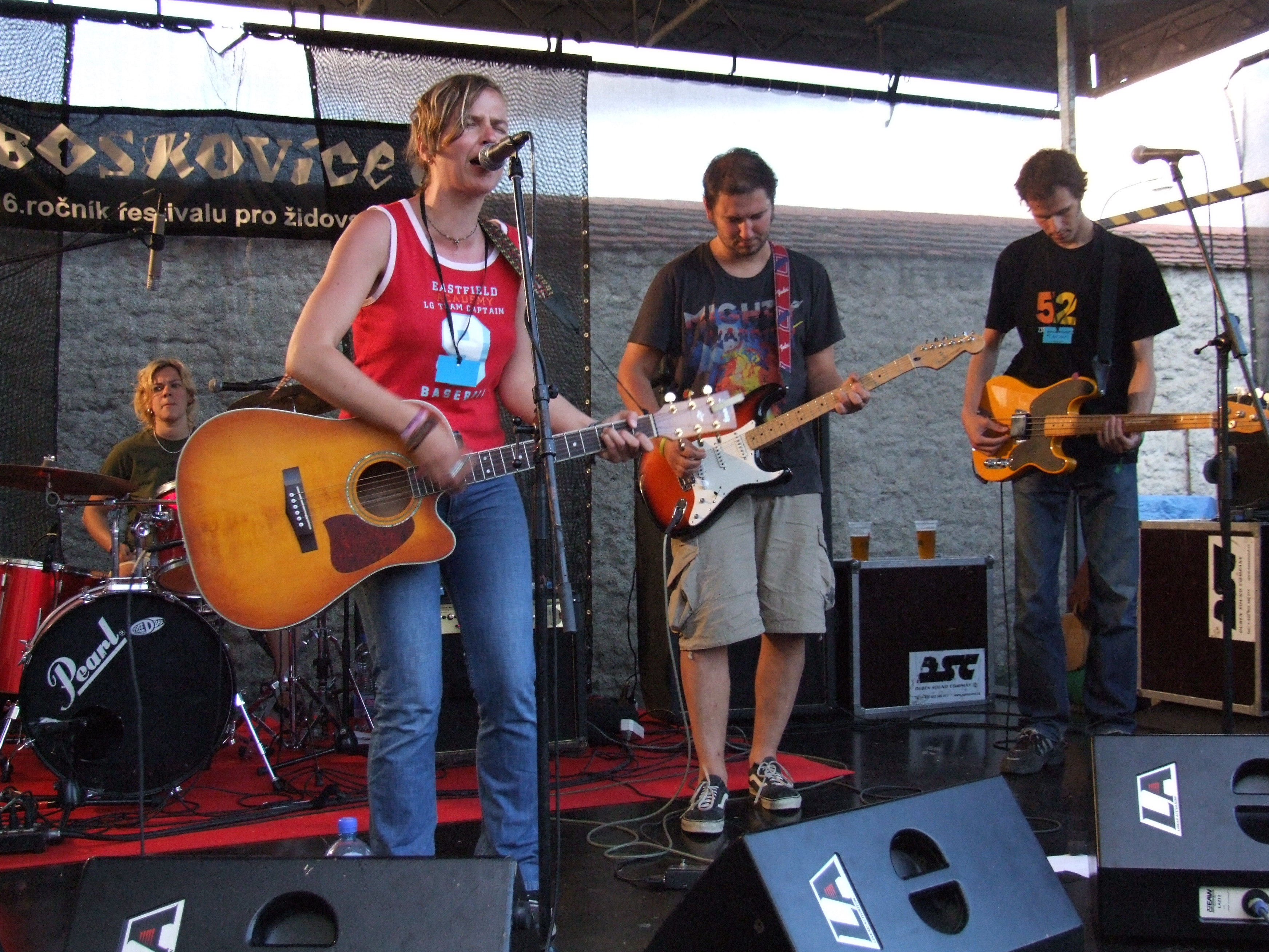 Slovak rock band "Živé kvety", festival Boskovice, 19. 7. 2008